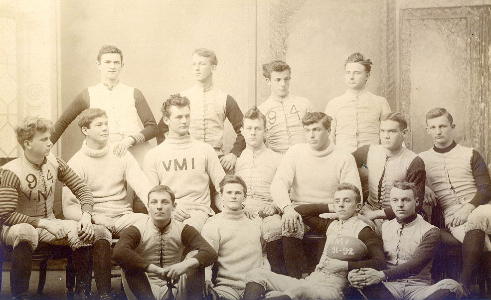 The 1891 VMI football team photo